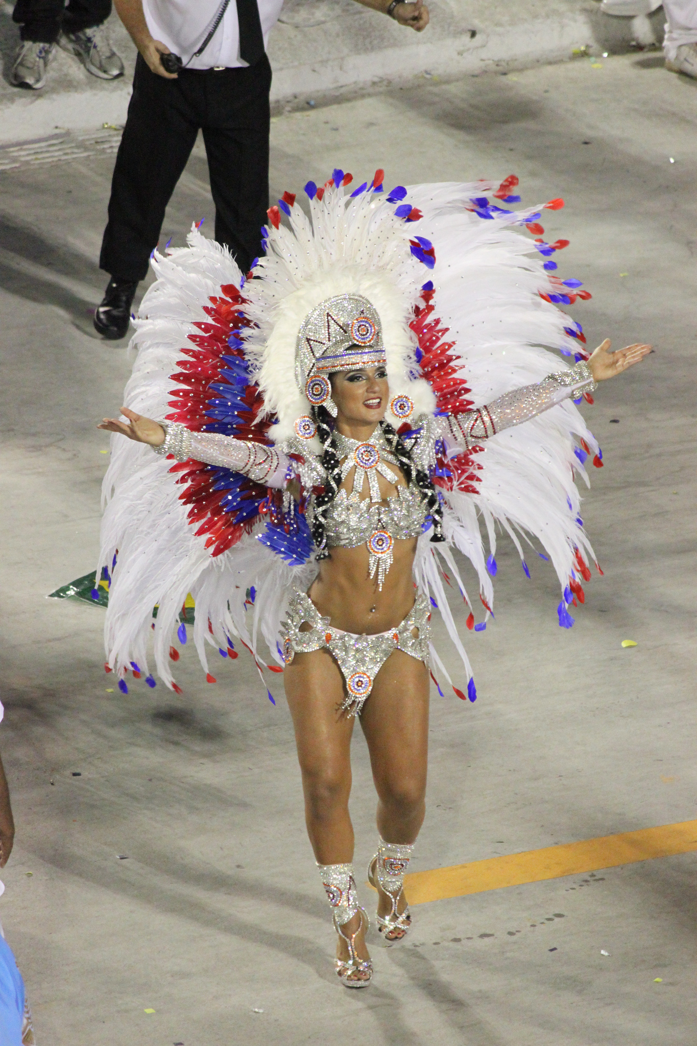 Jarod Burns - 19-02-12 - Rio de Janeiro - Sambadrome Marquês de Sapucaí